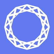 app icon